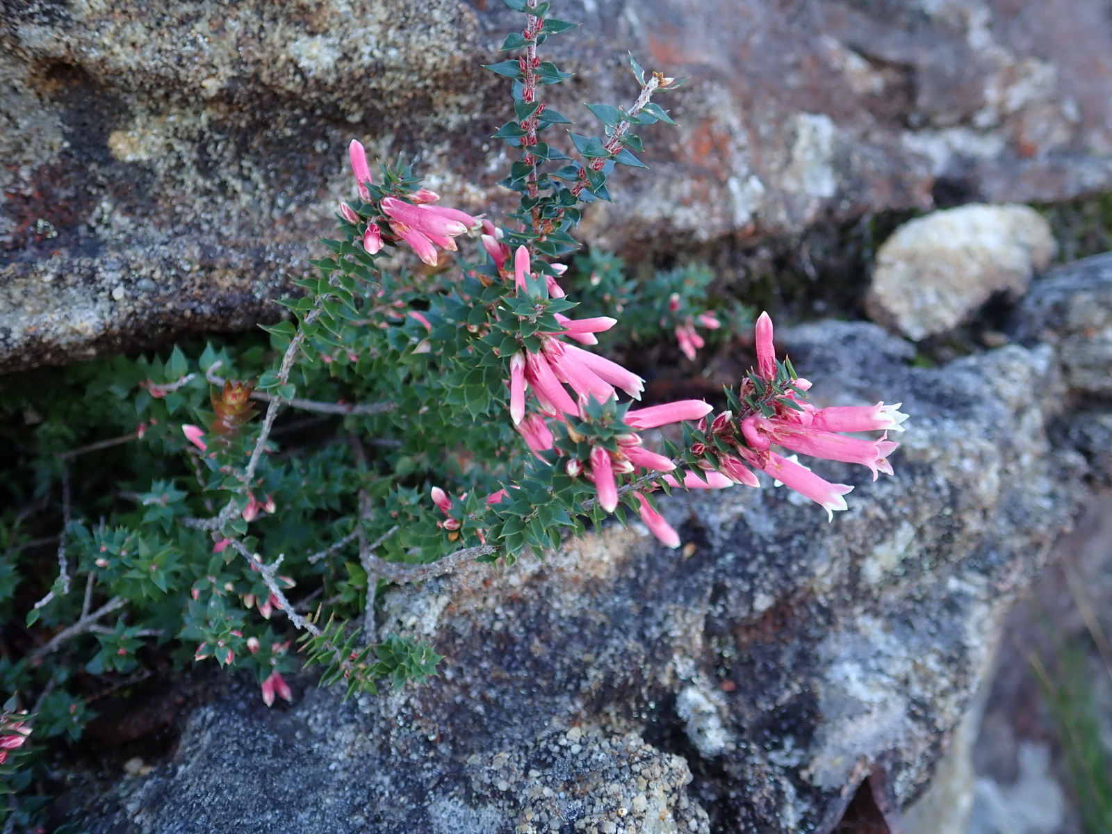 Epacris reclinata Epacris reclinata at Pearces Pass, Blue Mountains NP